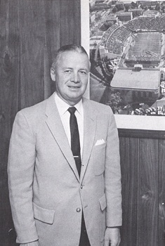 Nebraska Cornhuskers athletic director WIlliam "Tippy" Dye